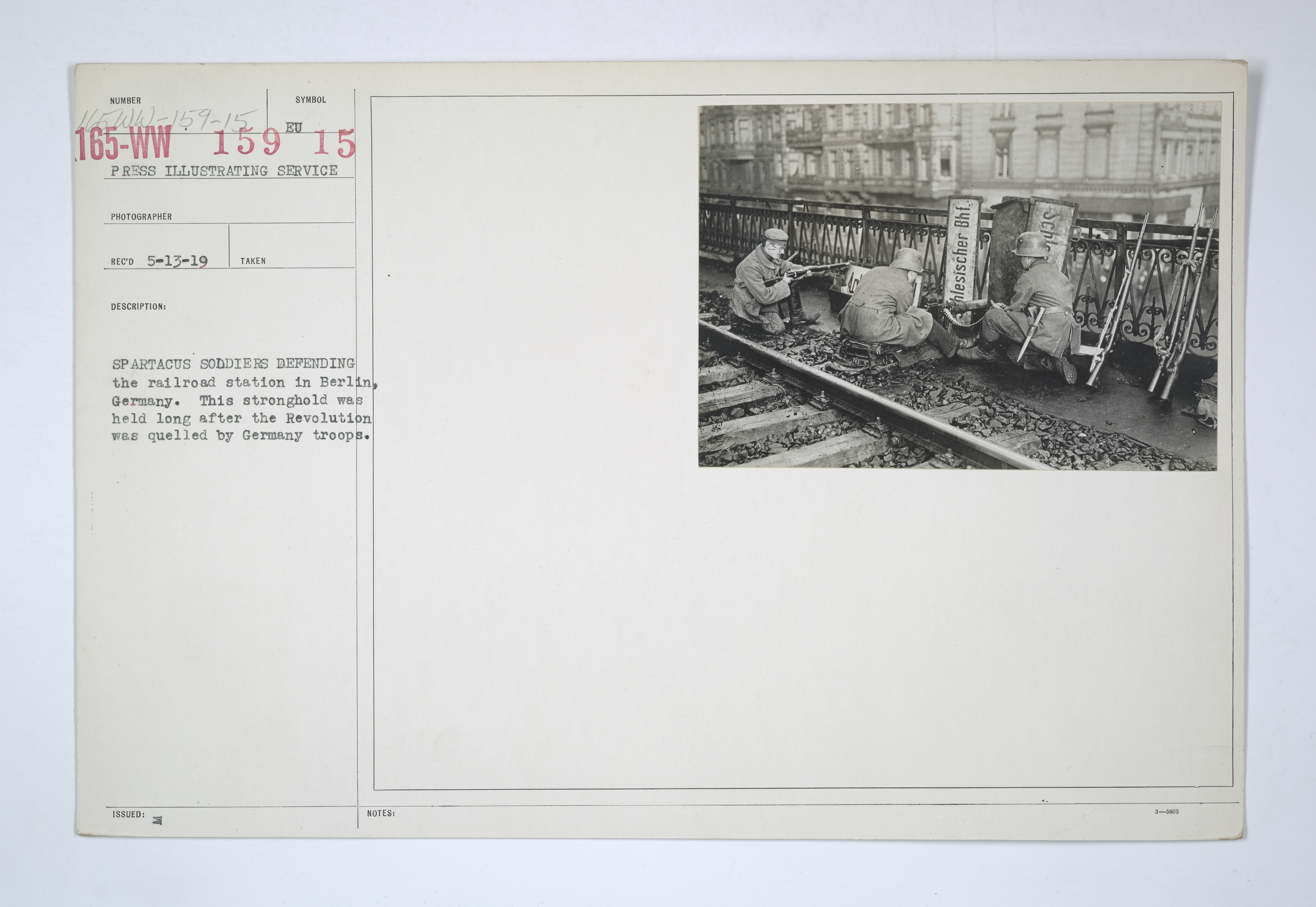 Scope and content: Photographer: Press Illustrating Service